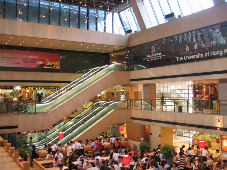 Admiralty Centre VOID